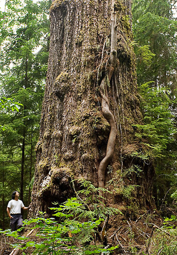 The Red Creek Fir is the largest known Douglas-fir on Earth. It is located approximately 15 kms from Port Renfrew, BC. This giant measures 73 m high and 13.3 m girth. Even though it holds a world record for its species, the BC Liberal government has offered it no legislated protection.